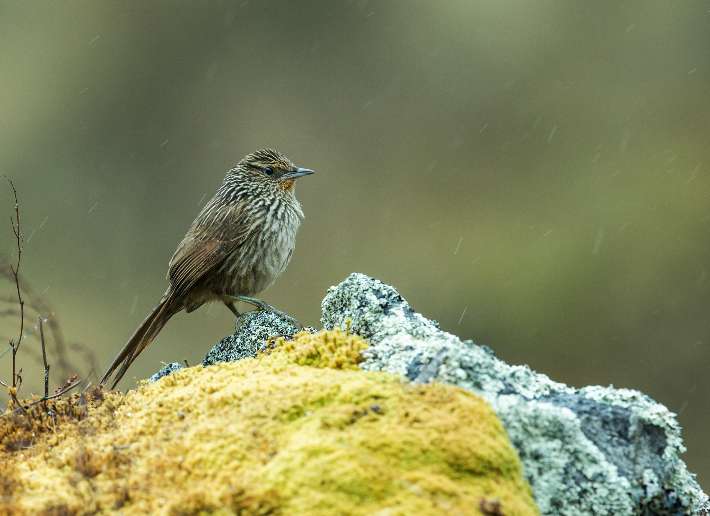 Junin Canastero from Runatullo, Junín, Peru.